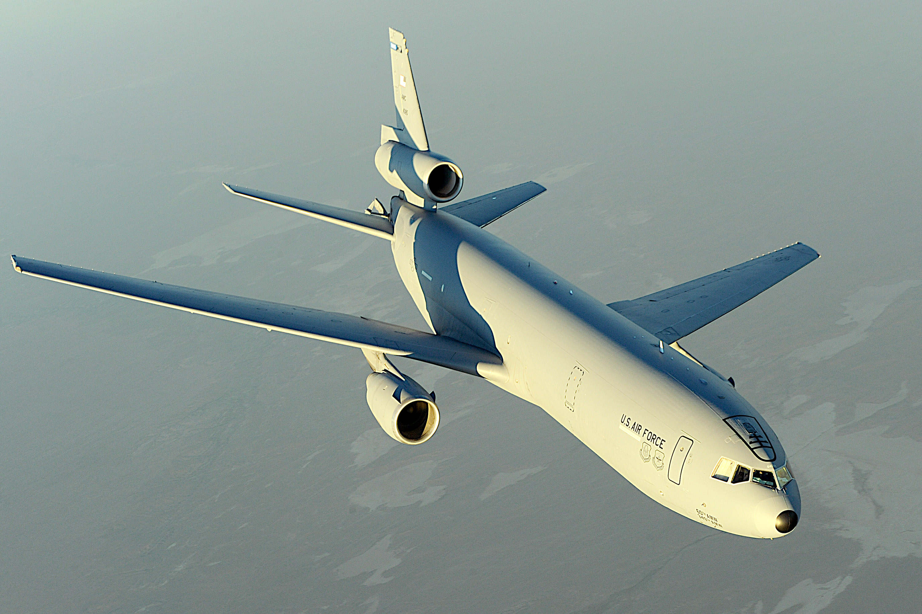 A KC-10 Extender from the 908th Expeditionary Aerial Refueling Squadron flies over Afghanistan on Dec. 11. Using either an advanced aerial refueling boom, or a hose and drogue centerline refueling system, the KC-10 can refuel a wide variety of U.S. and allied military aircraft within the same mission. (U.S. Air Force photo/Staff Sgt. Aaron Allmon)